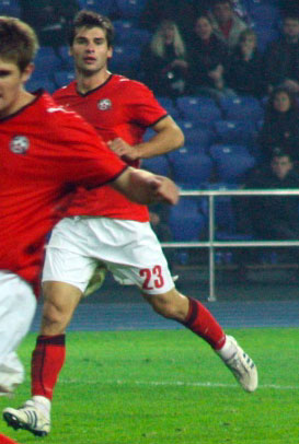 Mladen Bartulović, Croatian footballer, during the game for Kryvbas Kryvyi Rih